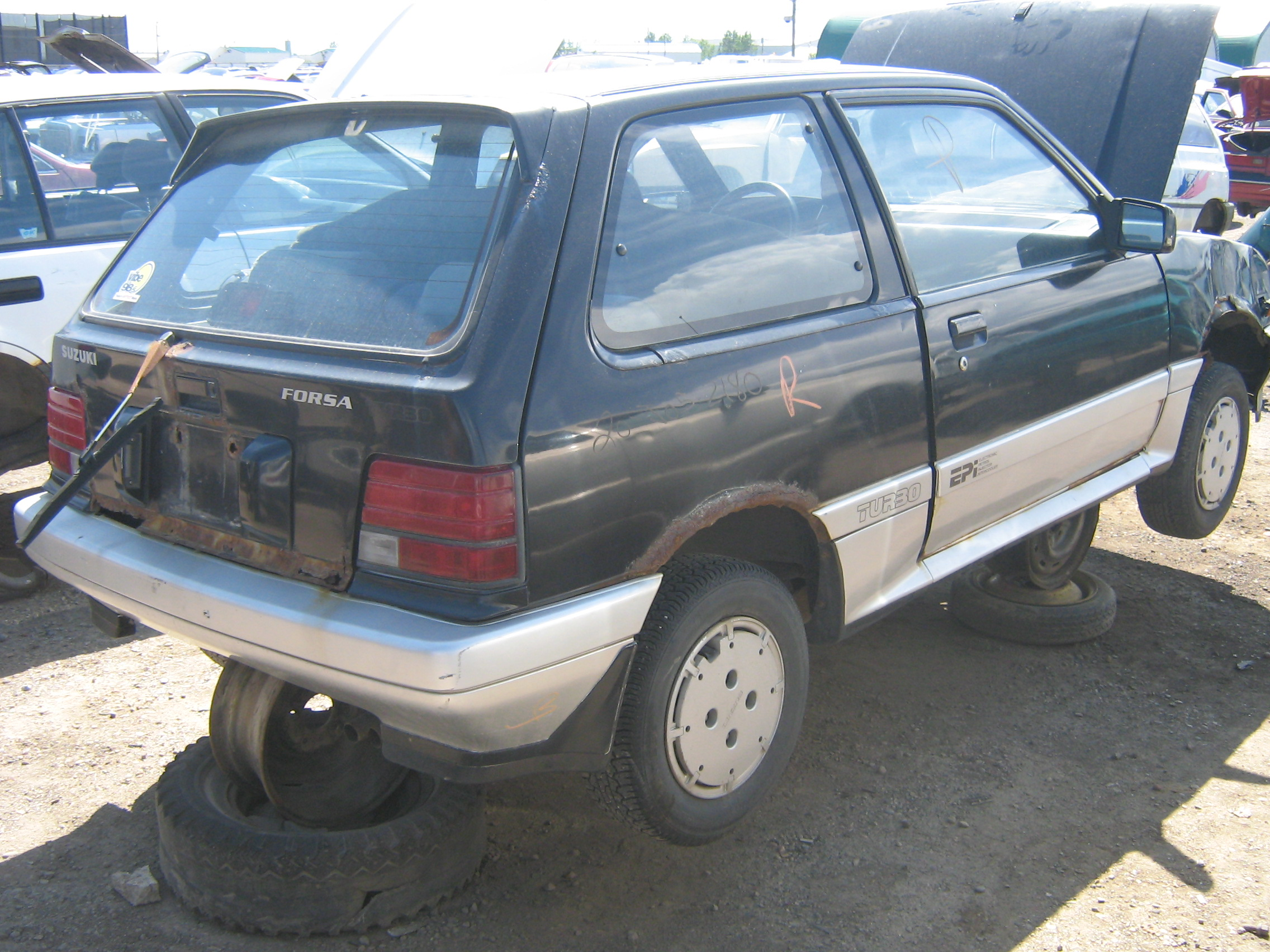 Rare three cylinder turbo version.